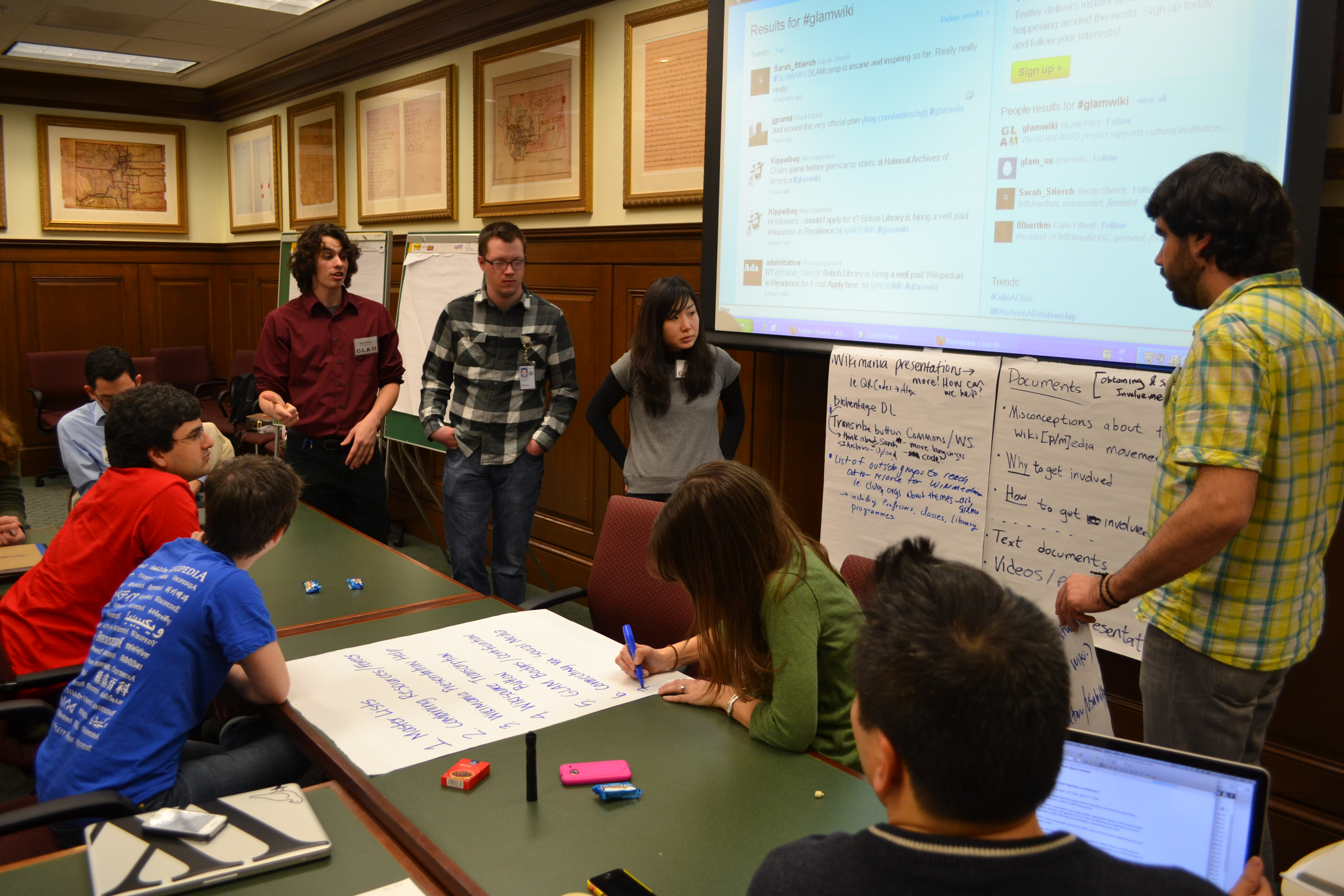 A group, during the icebreaking session on day one of GLAMcamp DC 2012, documents their vast array of brainstorms and feverishly discusses ideas.